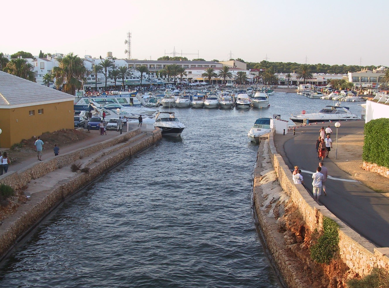 Harbour (marina) of Cala en Bosch, Minorca, Spain, at daytime